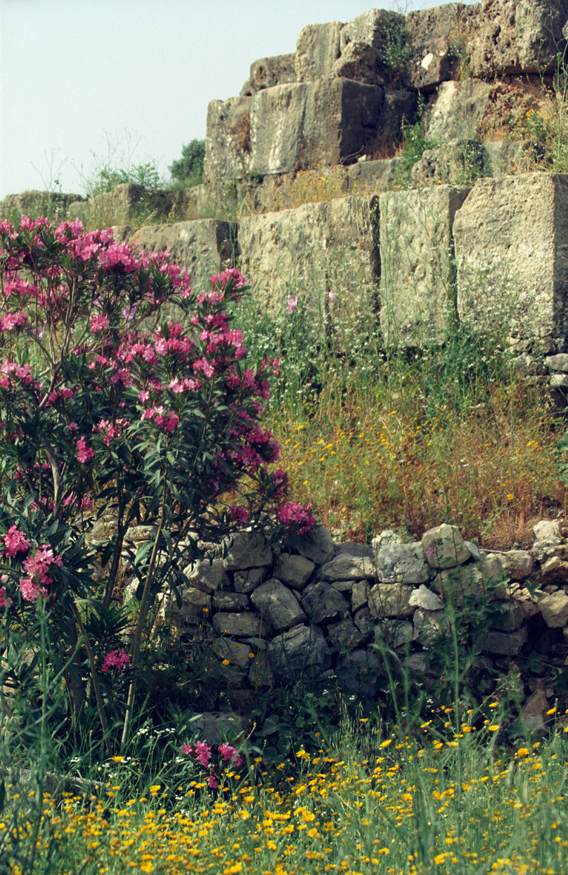 Byblos, the persian castle